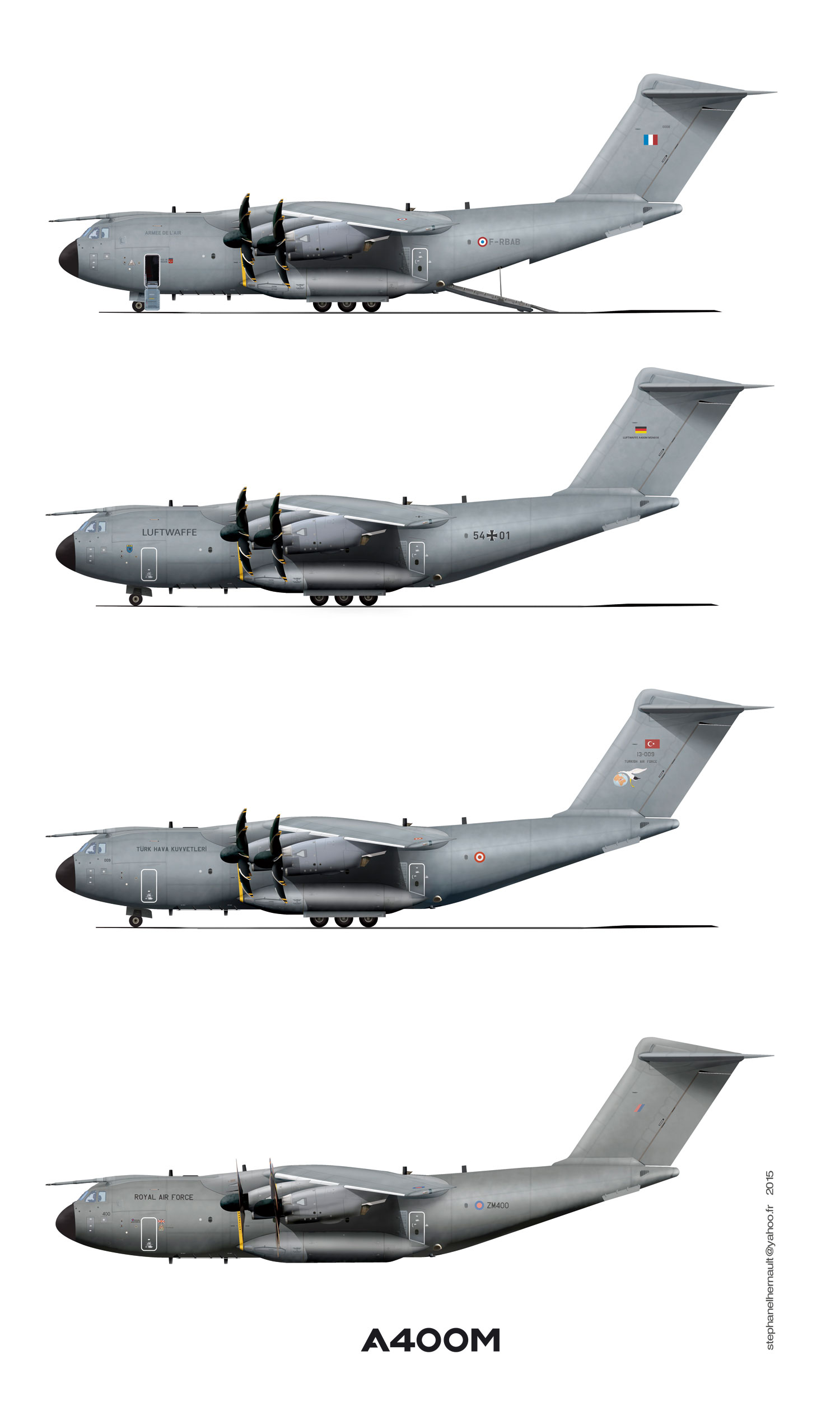 Airbus A400M with markings of France, Germany, Turkey and the United Kingdom